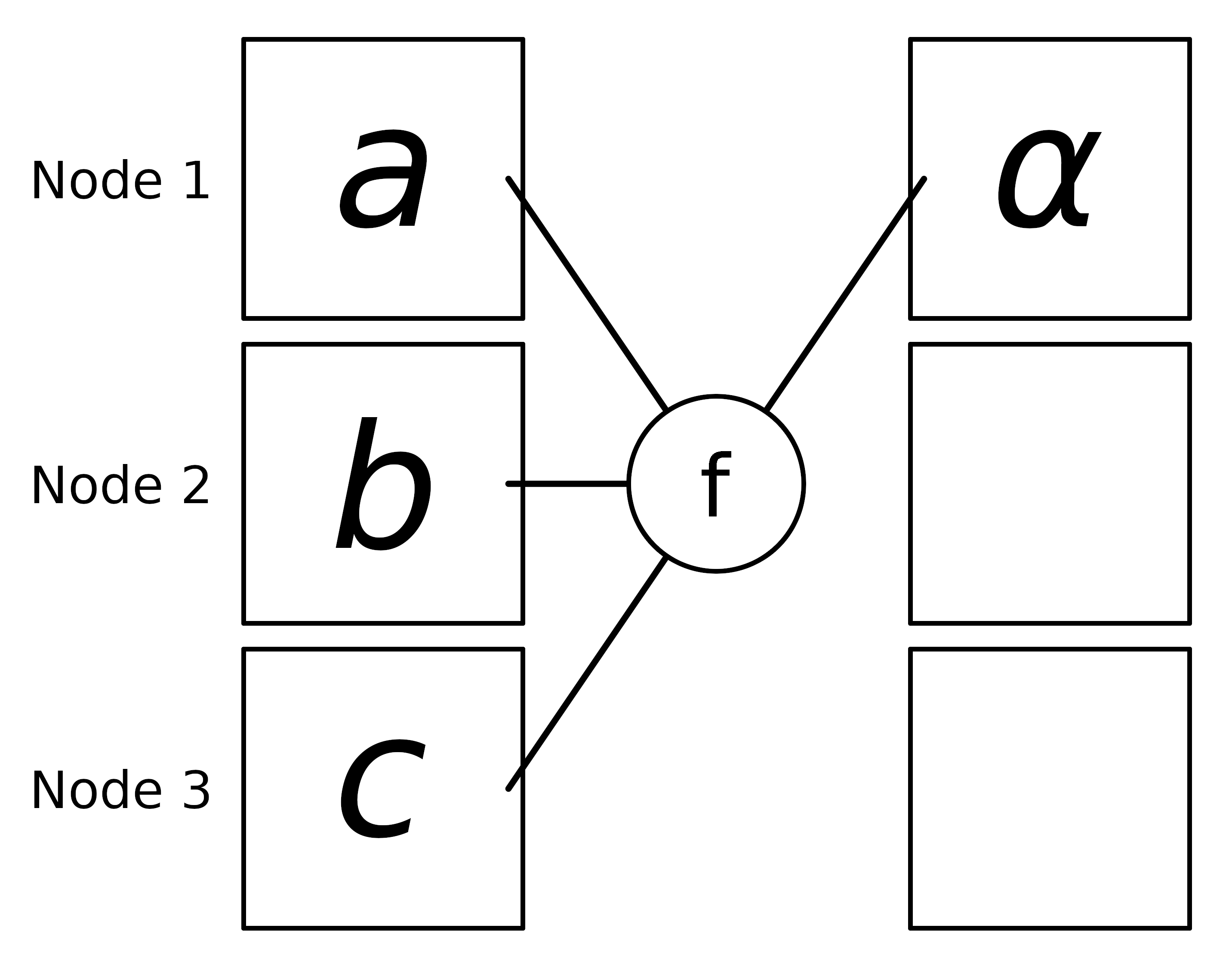 Information from all nodes is combined into a final result alpha, which is computed by an associative operator and stored at one node.